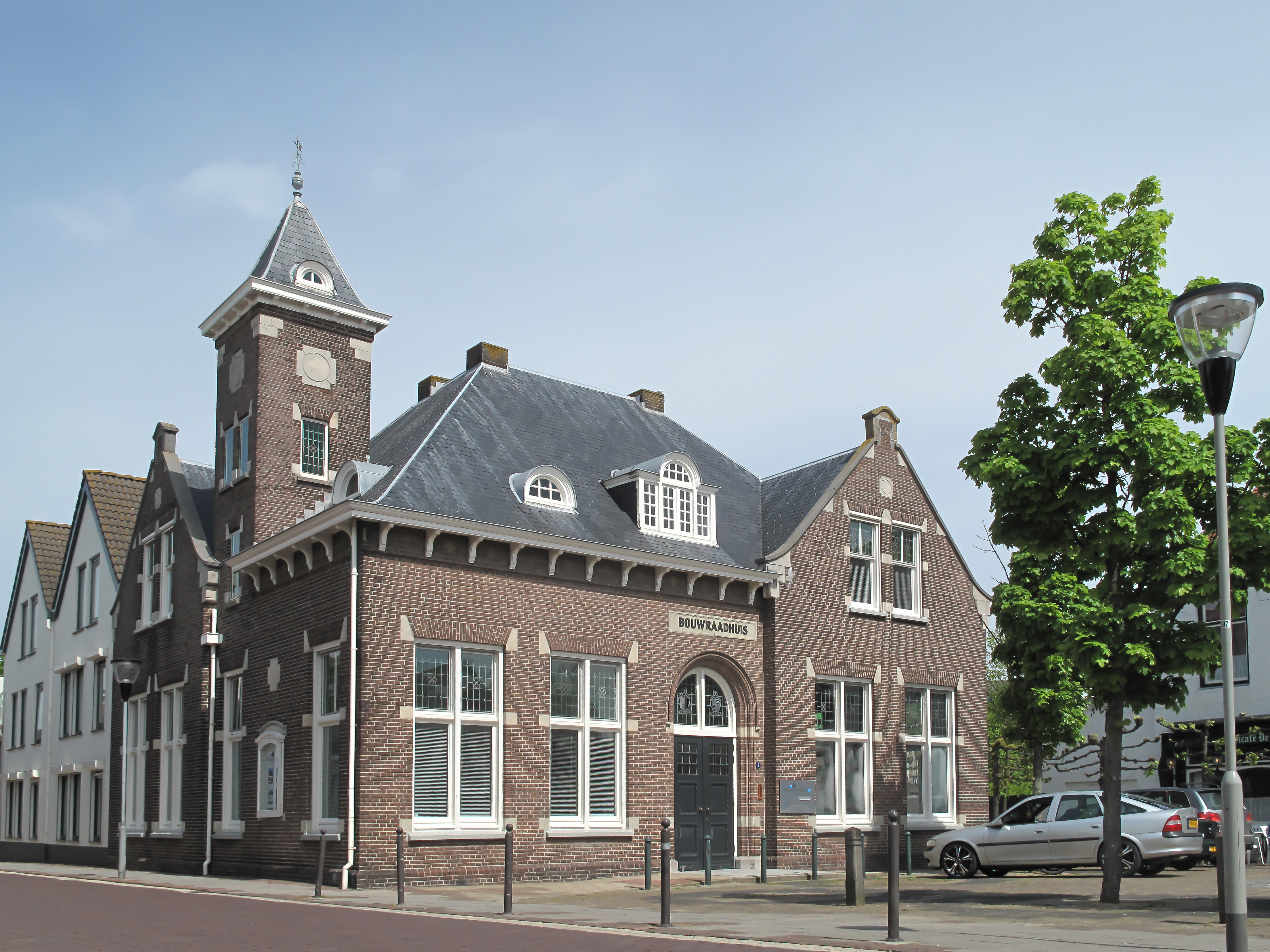 Kruiningen, monumental building: het bouwraadhuis